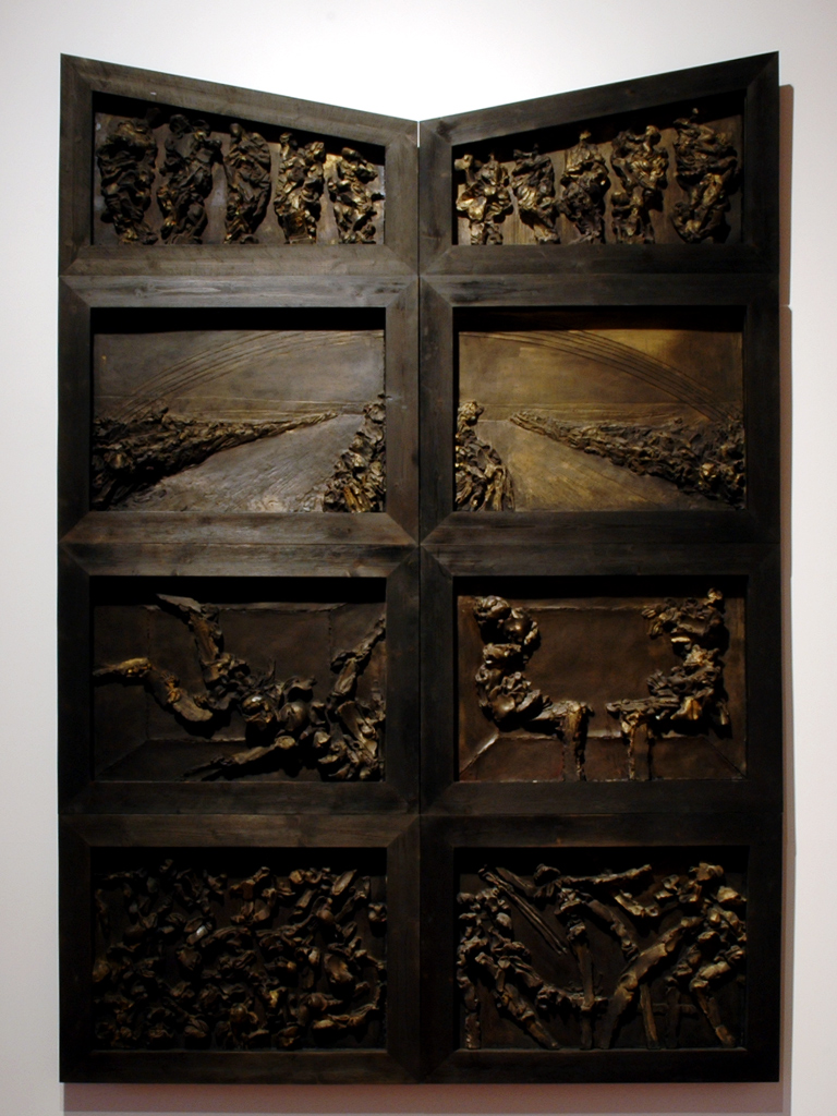 Door with relief by Jan Koblasa, Court building in Norderstedt, wooden frame, bronze (1985)